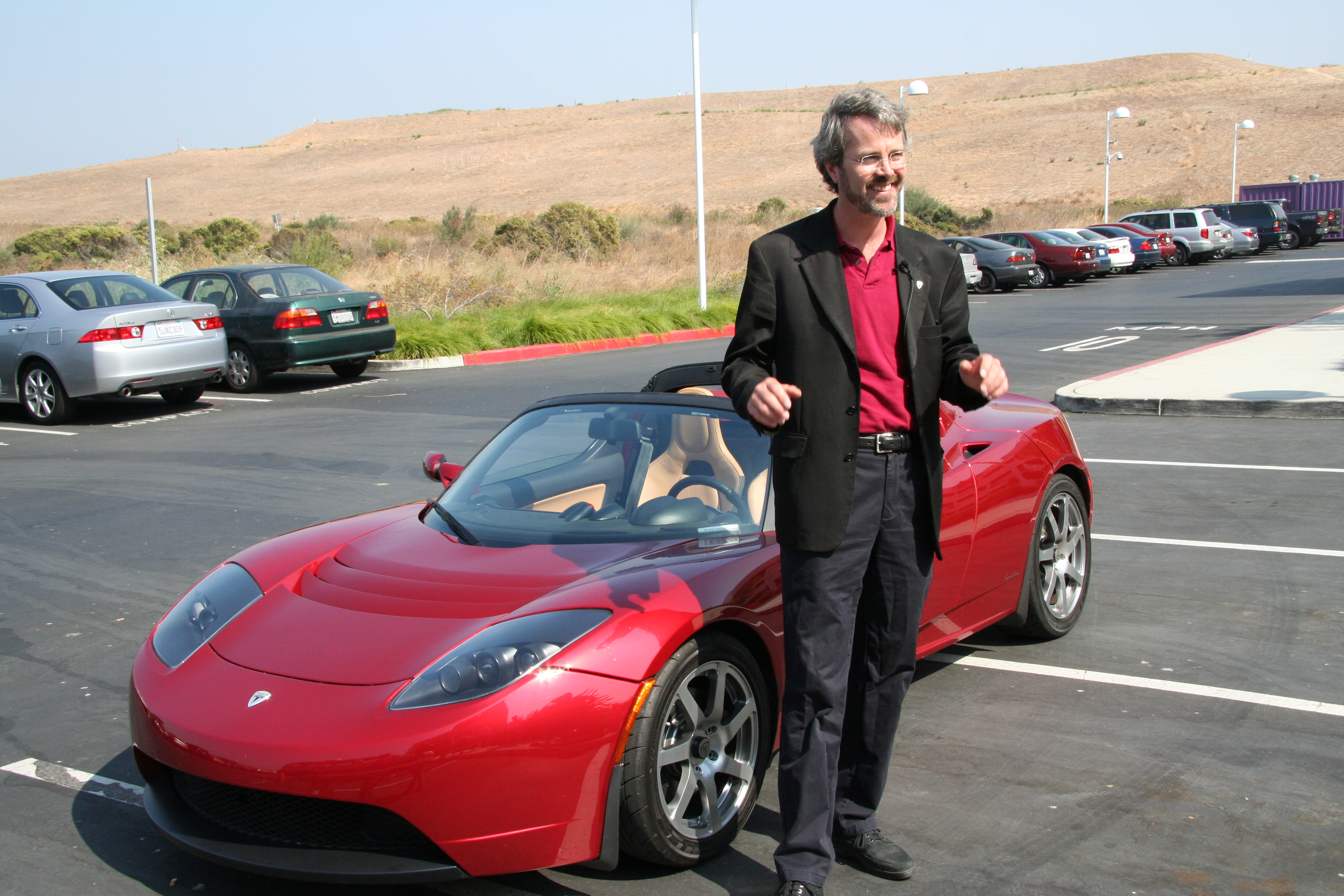 Martin Eberhard, former CEO of Tesla Motors